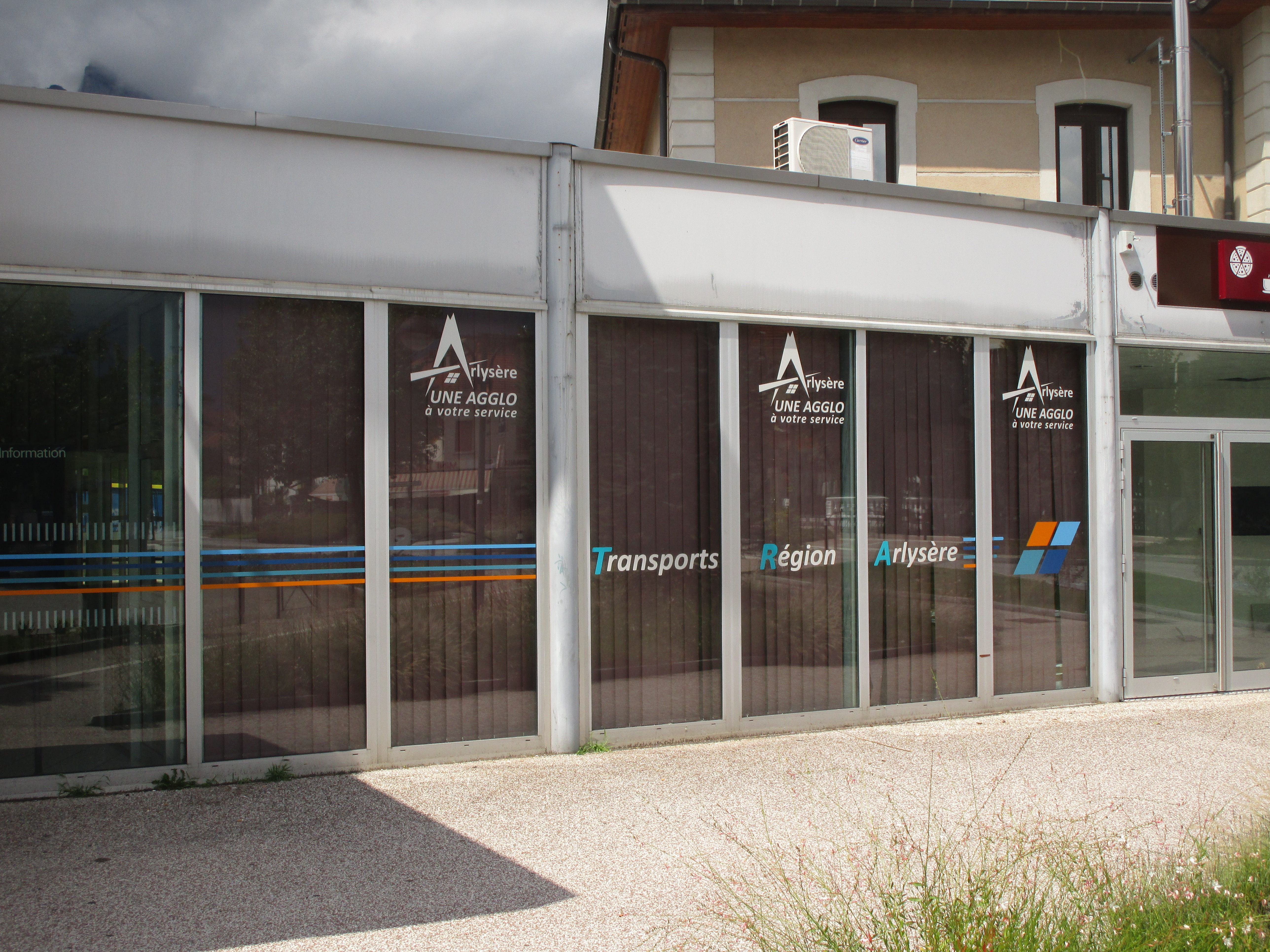 The sales agency of Transports Région Arlysère, in the Place de la Gare (Albertville, France), on August 9, 2017.